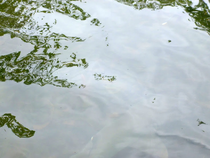 This photo was taken just off shore at Tortuga Bay is located on the Santa Cruz Island, about a 20-minute walk from the main water taxi dock in Puerto Ayora. The walking path is 1.55 miles (2,490 m) and is open from six in the morning to six in the evening. Visitors must sign in and out at the start of the path with the Galapagos Park Service office. Toruga Bay has a gigantic, perfectly preserved beach that is forbidden to swimmers and is preserved for the wildlife where many iguanas, crabs and birds are seen dotted along the lava rocks. There is a separate cove where you can swim where it is common to view whitetip reef sharks swimming in groups, small fish, birds, and gigantic turtles. wikipedia